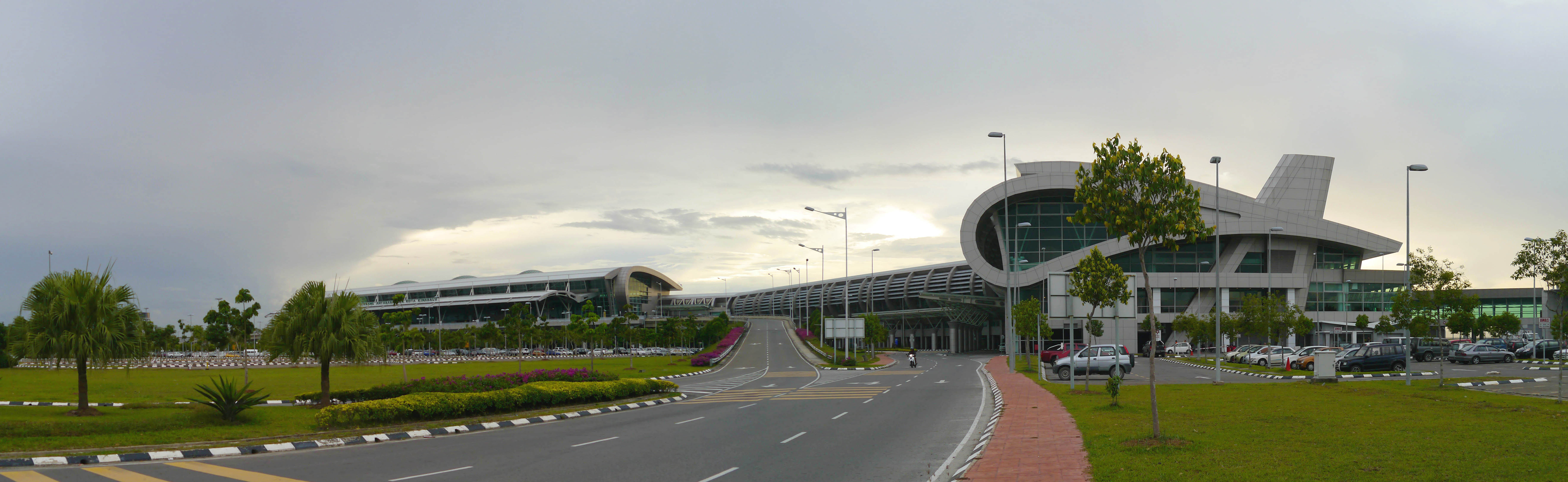 Kota Kinabalu International Airport, seen from the exit.